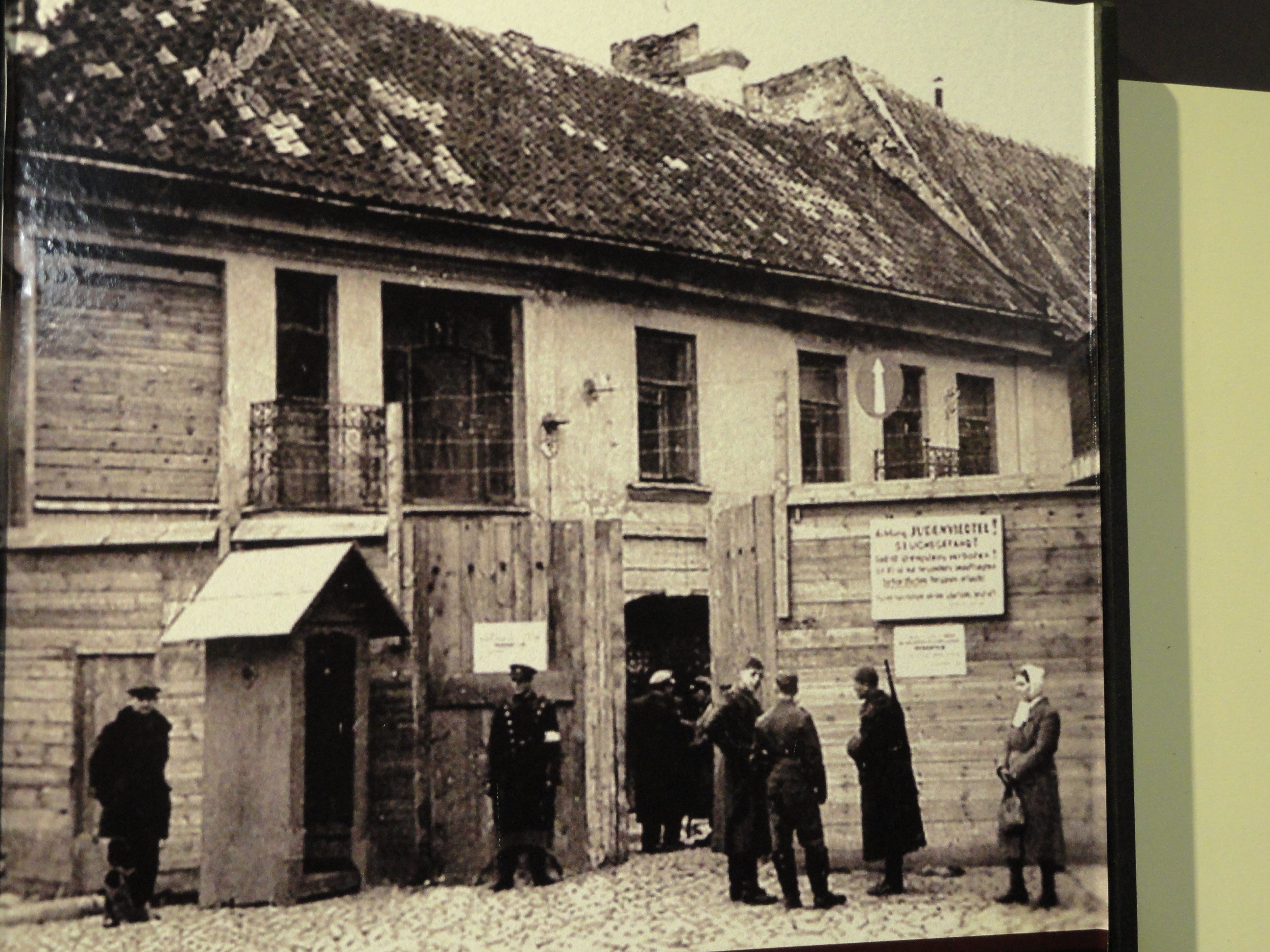 Main entrance to the Ghetto of Vilnius in Lituania, during WWII